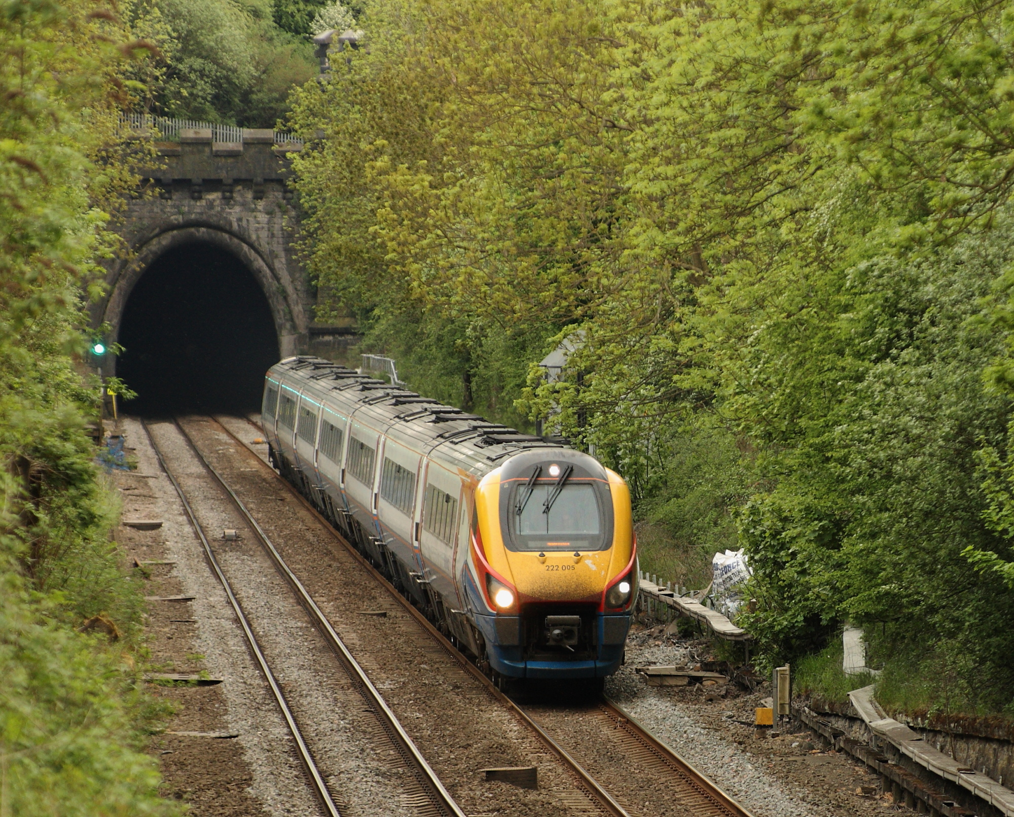 East Midlands Trains 222005 at Claycross Tunnel